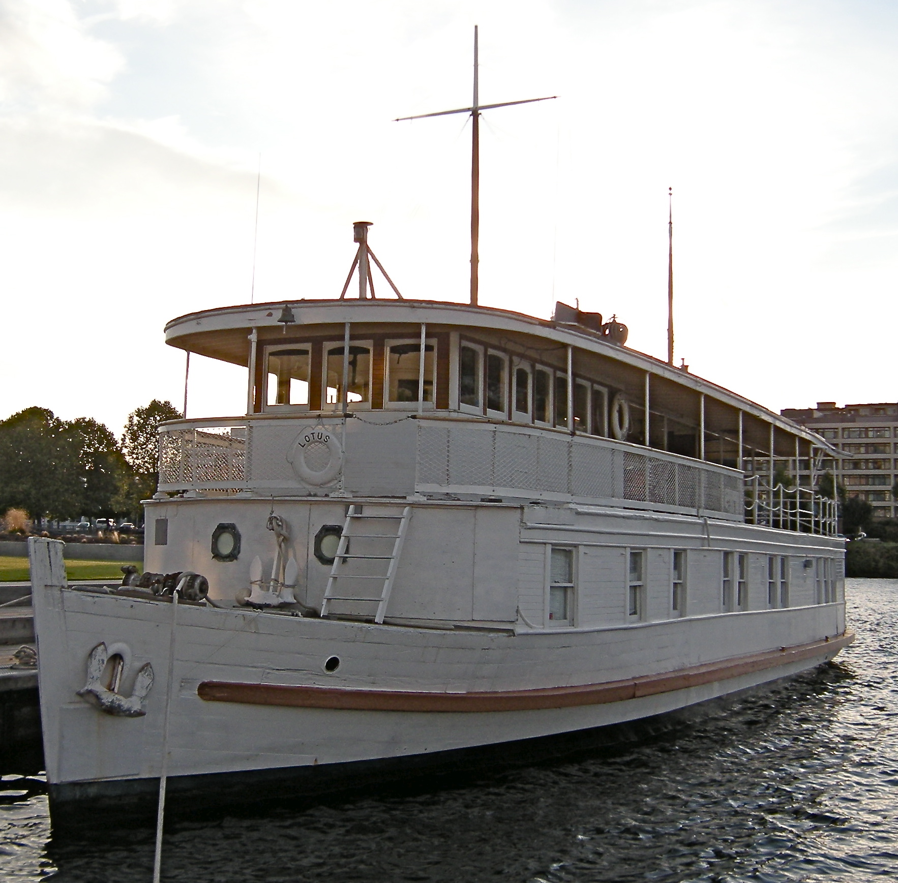 MV Lotus, normally moored in Olympia, Washington, visiting Northwest Seaport, Seattle, Washington. The 1909 boat is listed on the National Register of Historic Places. This version is cropped, lightened, and sharpened.